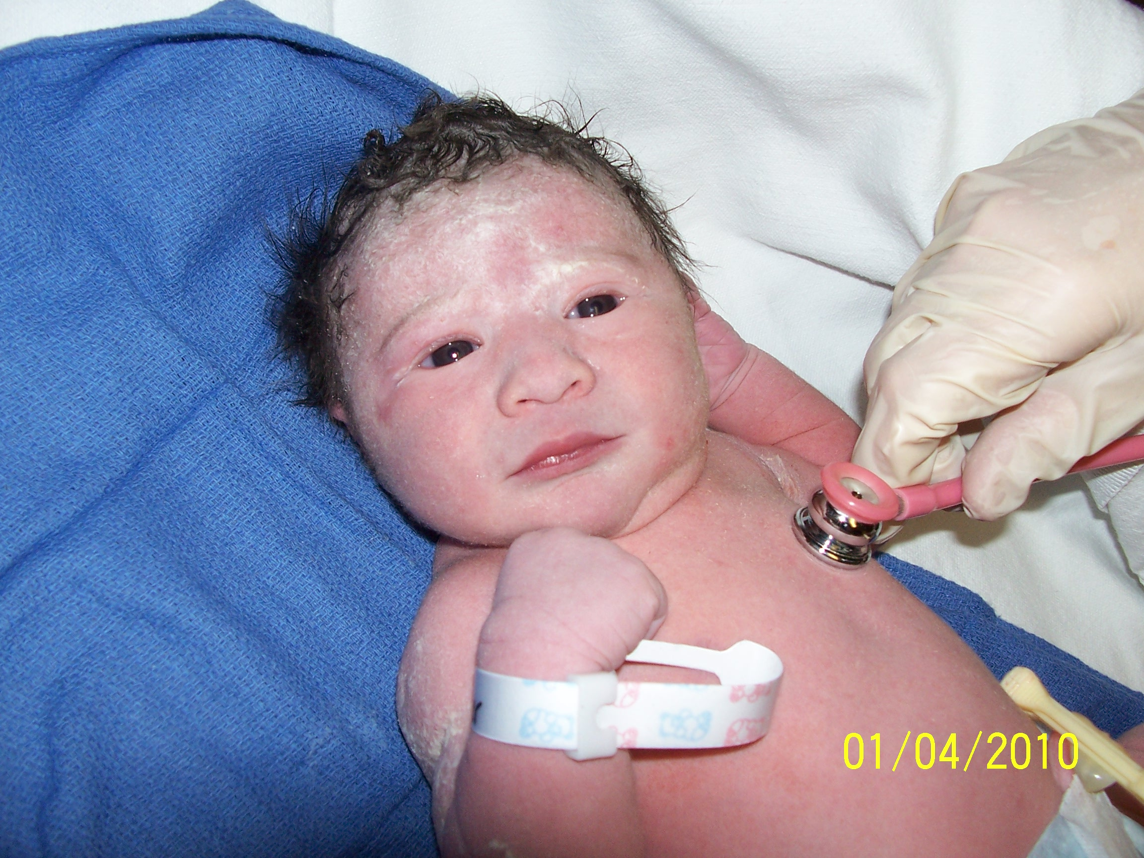 New Born Baby Girl